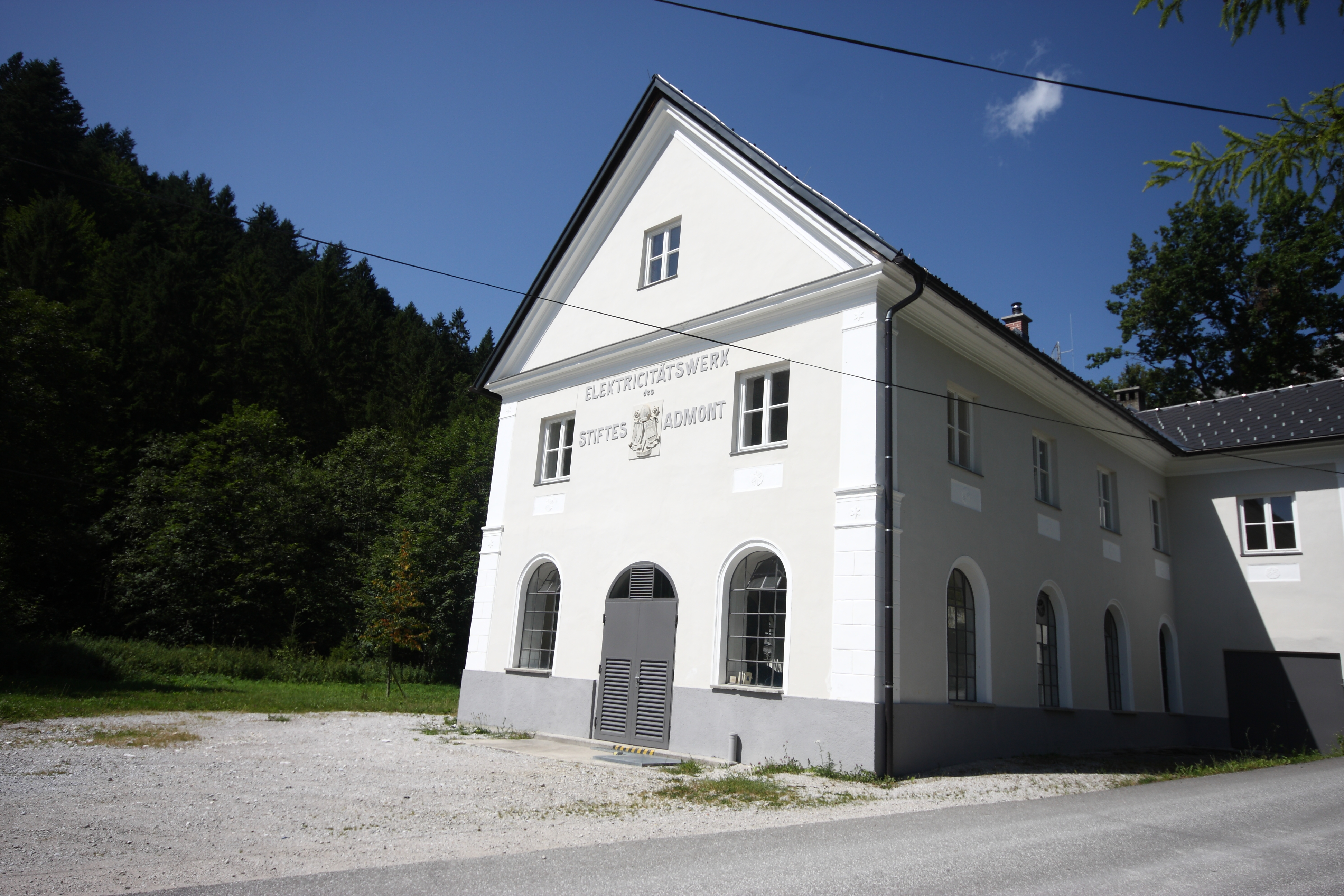 powerhouse in Mühlau, Admont